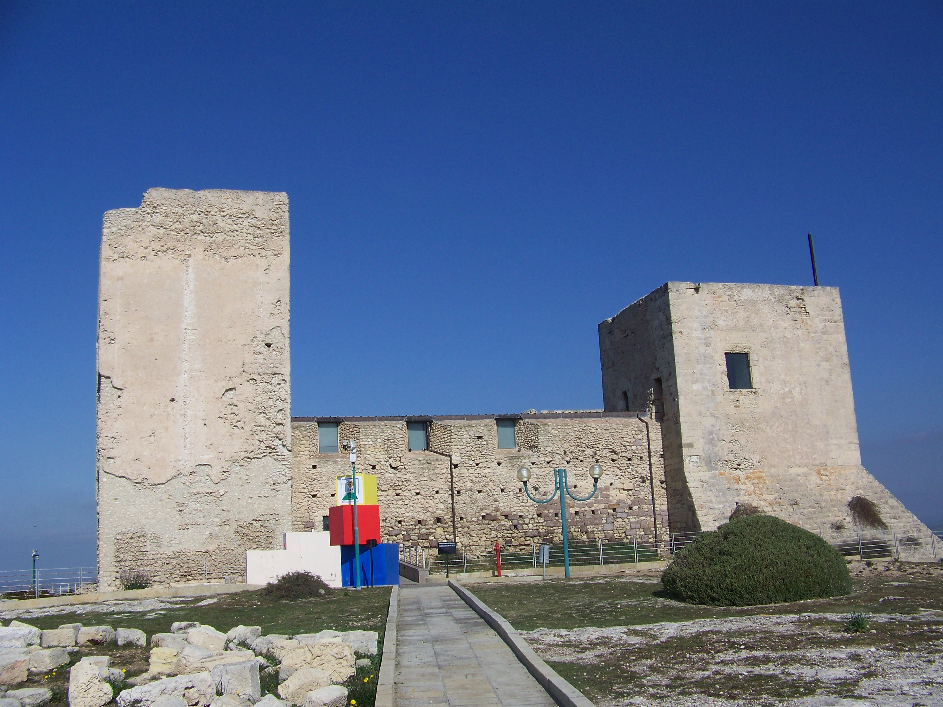 Castle of San Michele in Cagliari (Sardinia - Italy)